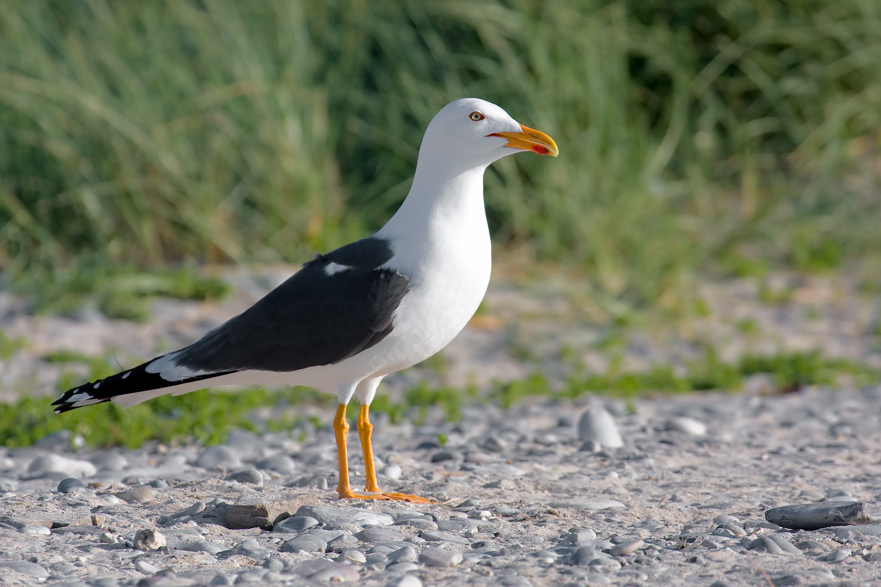 Lesser Black-backed Gull